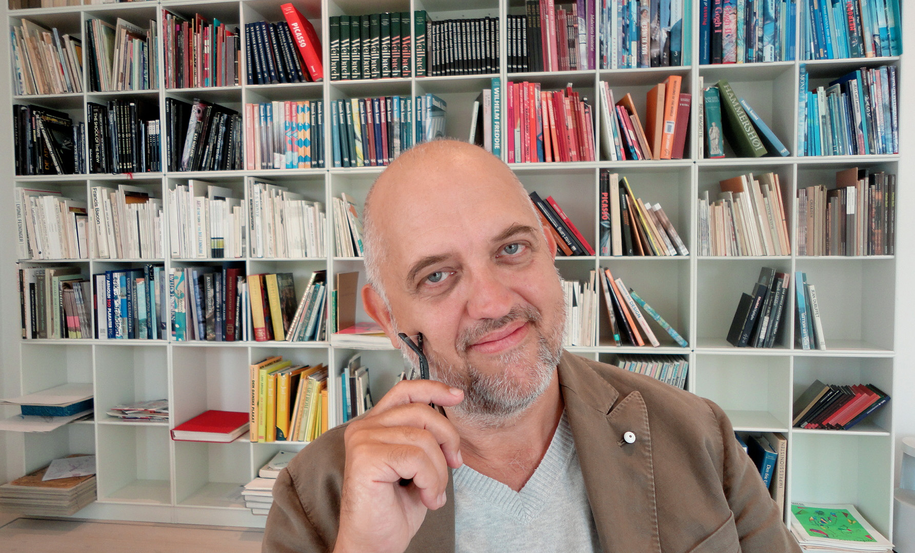 Sven Birch